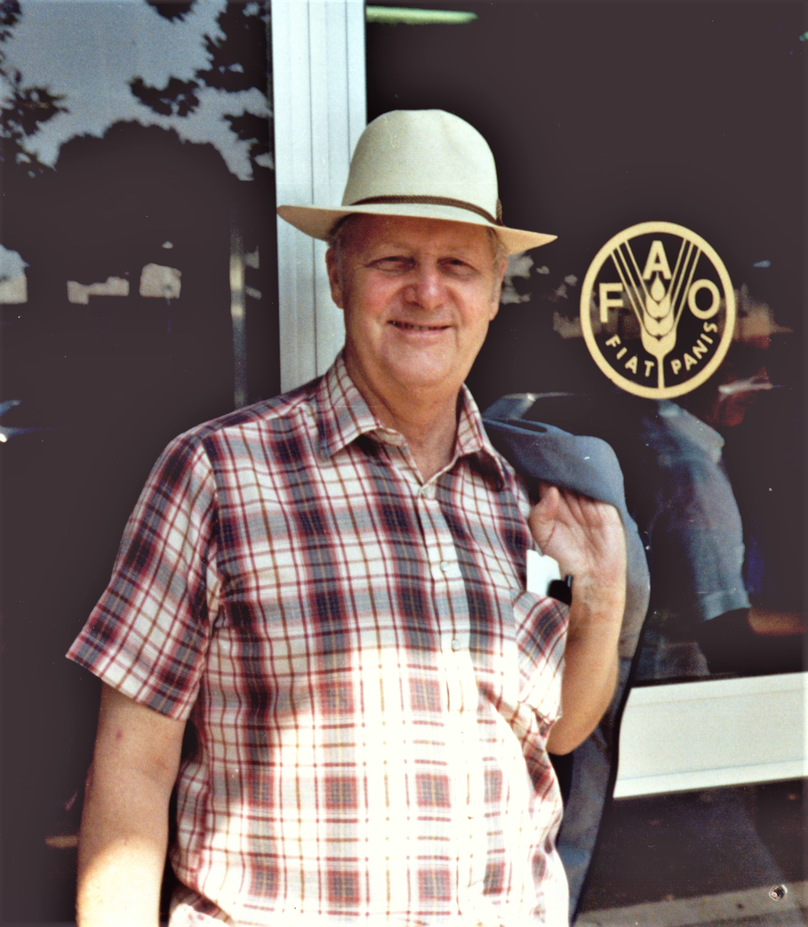 Dr. Walter Fischer standing in Front of the FAO Building in Rome (1990)